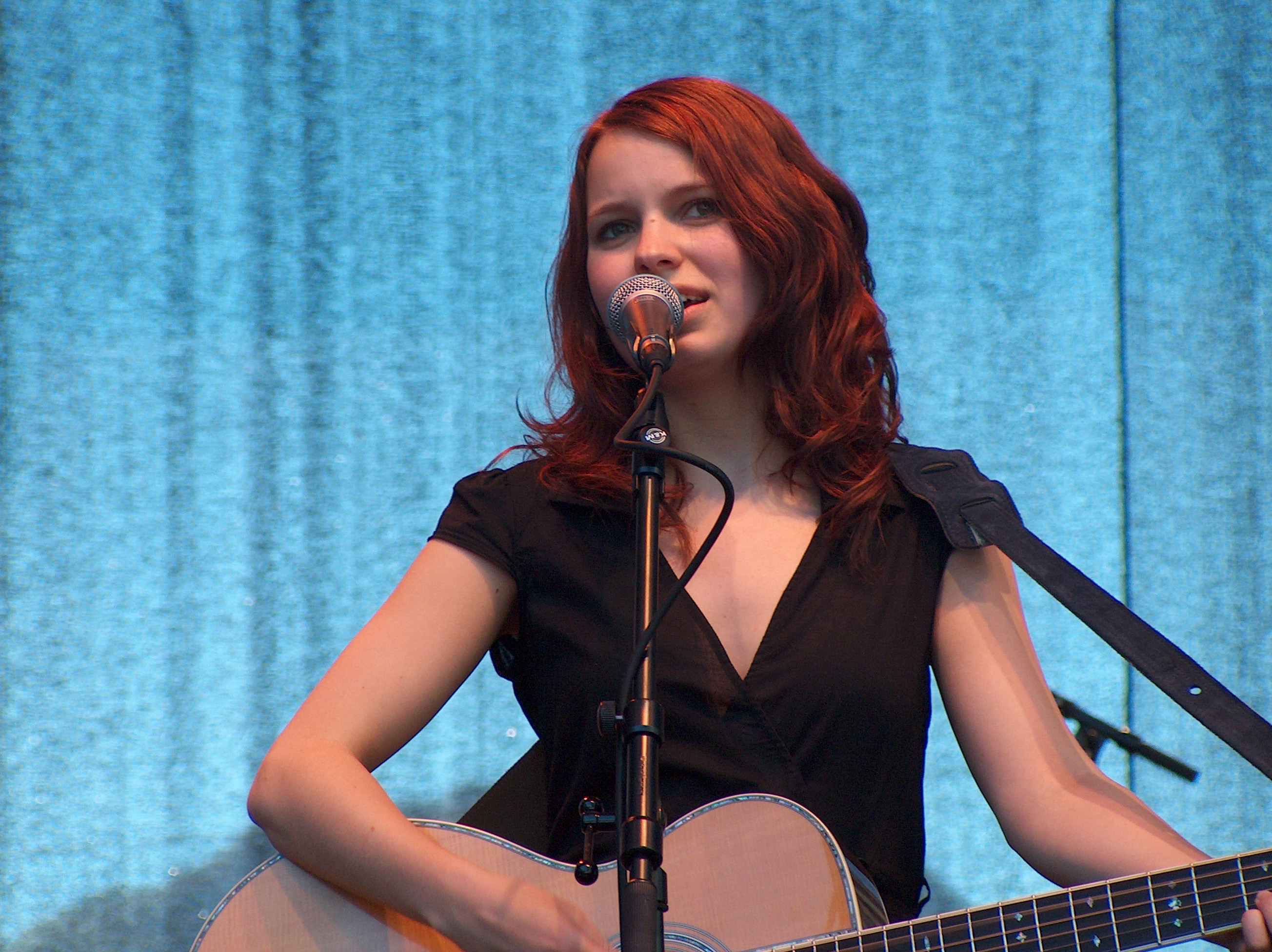 Marit Larsen is a Norwegian musician.